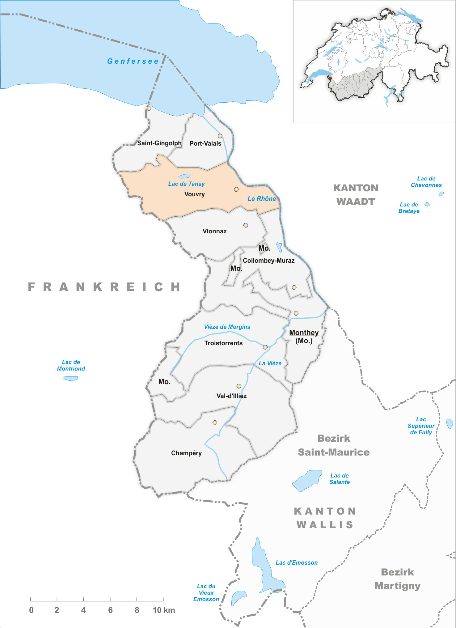 Municipality Vouvry